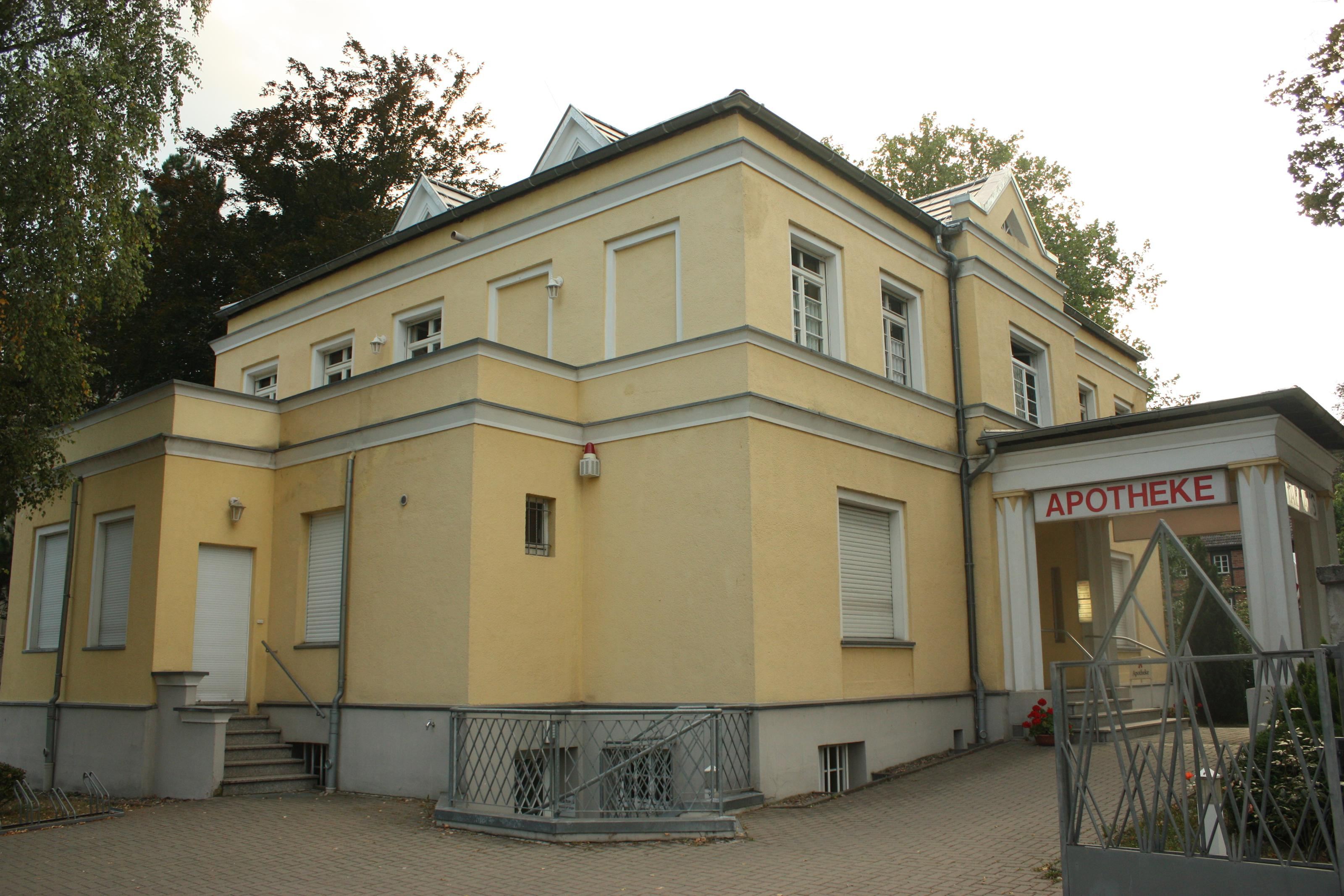 This is a photograph of an architectural monument.It is on the list of cultural monuments of Quedlinburg Kaiser-Otto-Straße 05 (Quedlinburg)